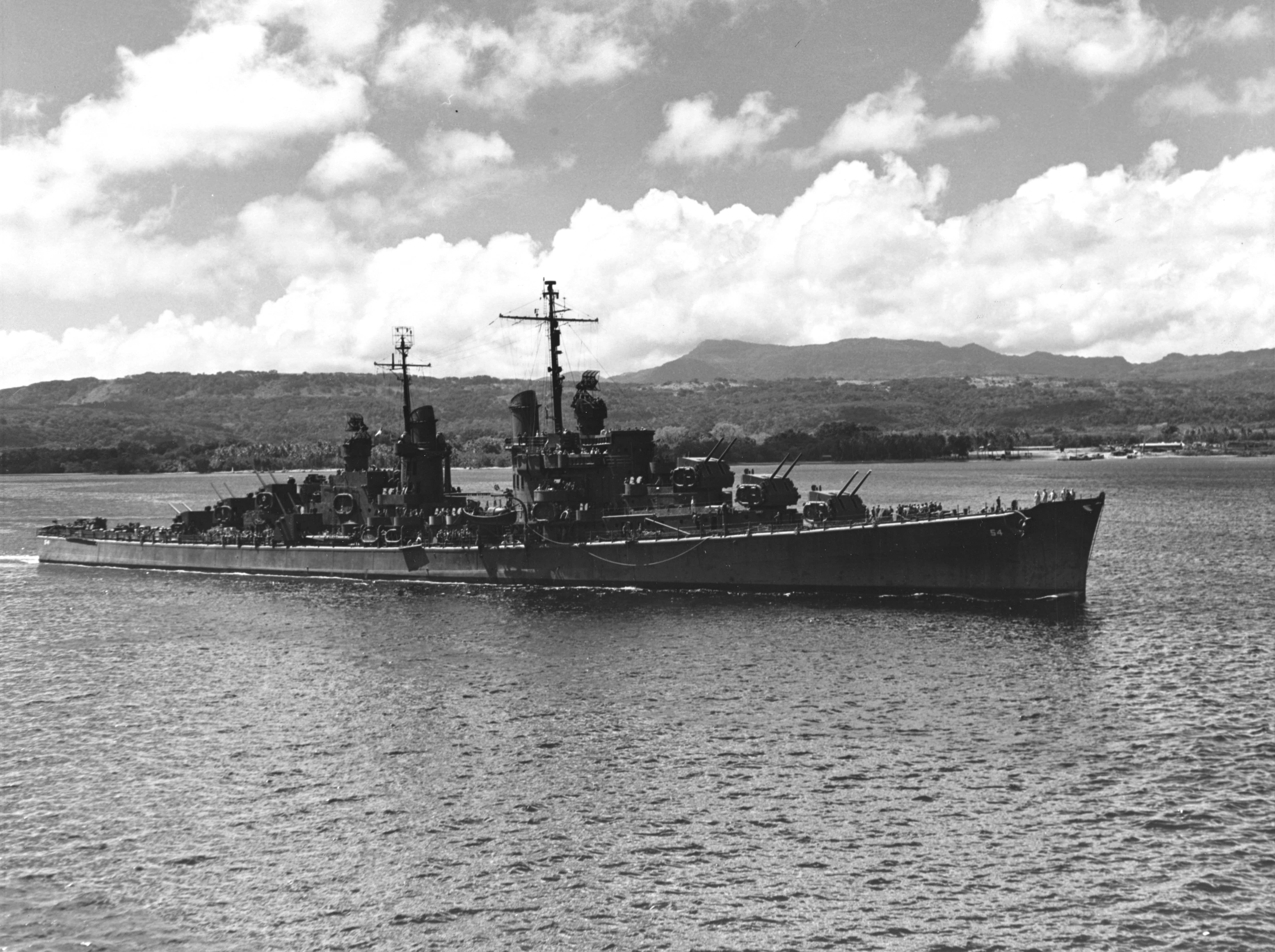 The U.S. Navy light cruiser USS San Juan (CL-54) in a South Pacific harbour, on 30 August 1943.